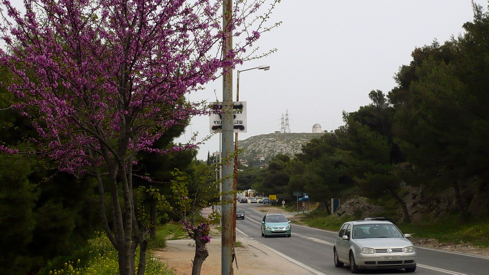 The above picture depicts the Penteli's Avenue.